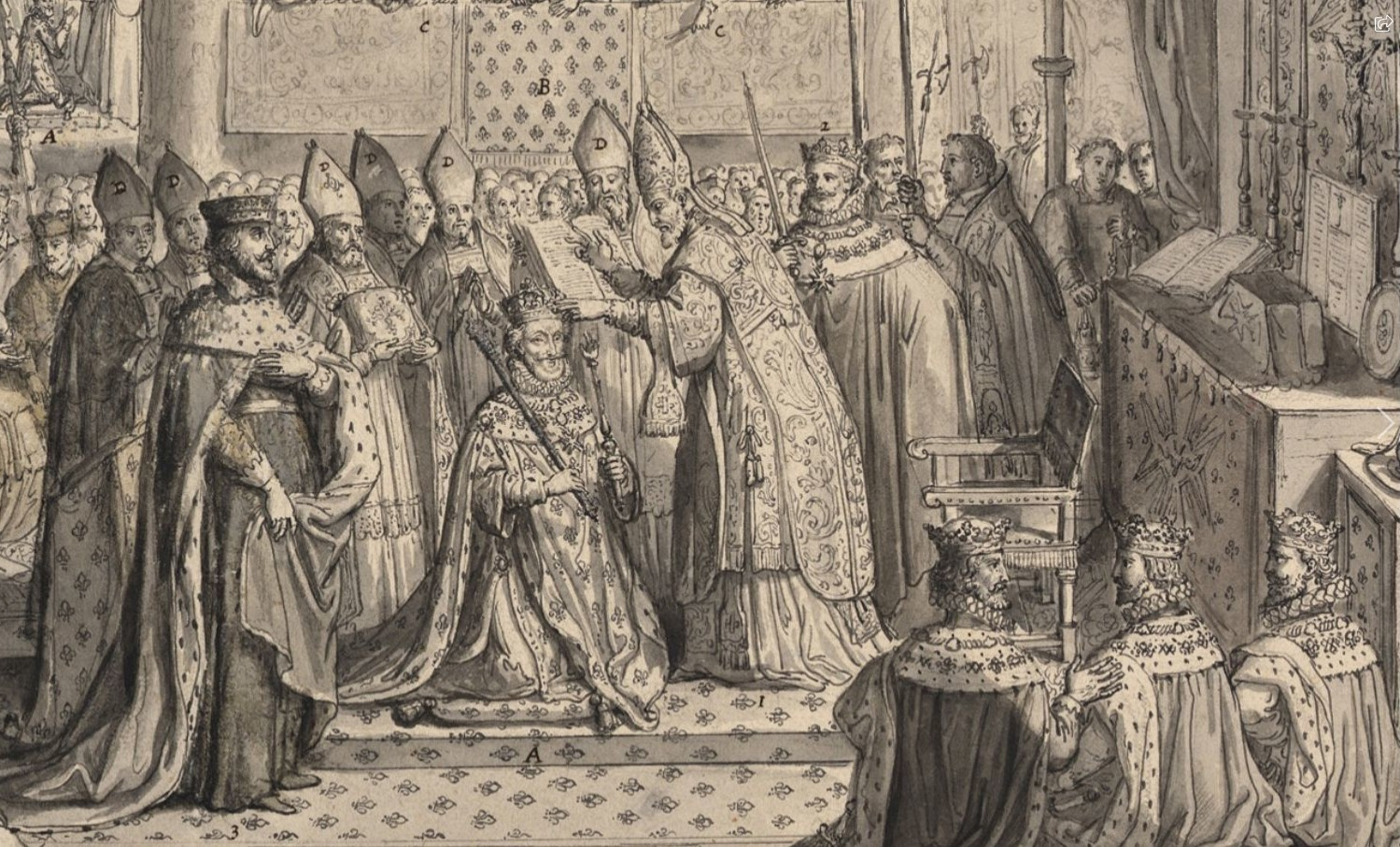 Coronation of Henry IV of France. (Bibliothèque nationale de France)